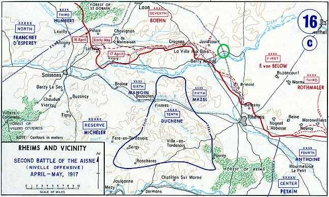 Map of the Western Front, 1917. Battle of the Aisne 16 April 1917. Green circel; Guignicourt